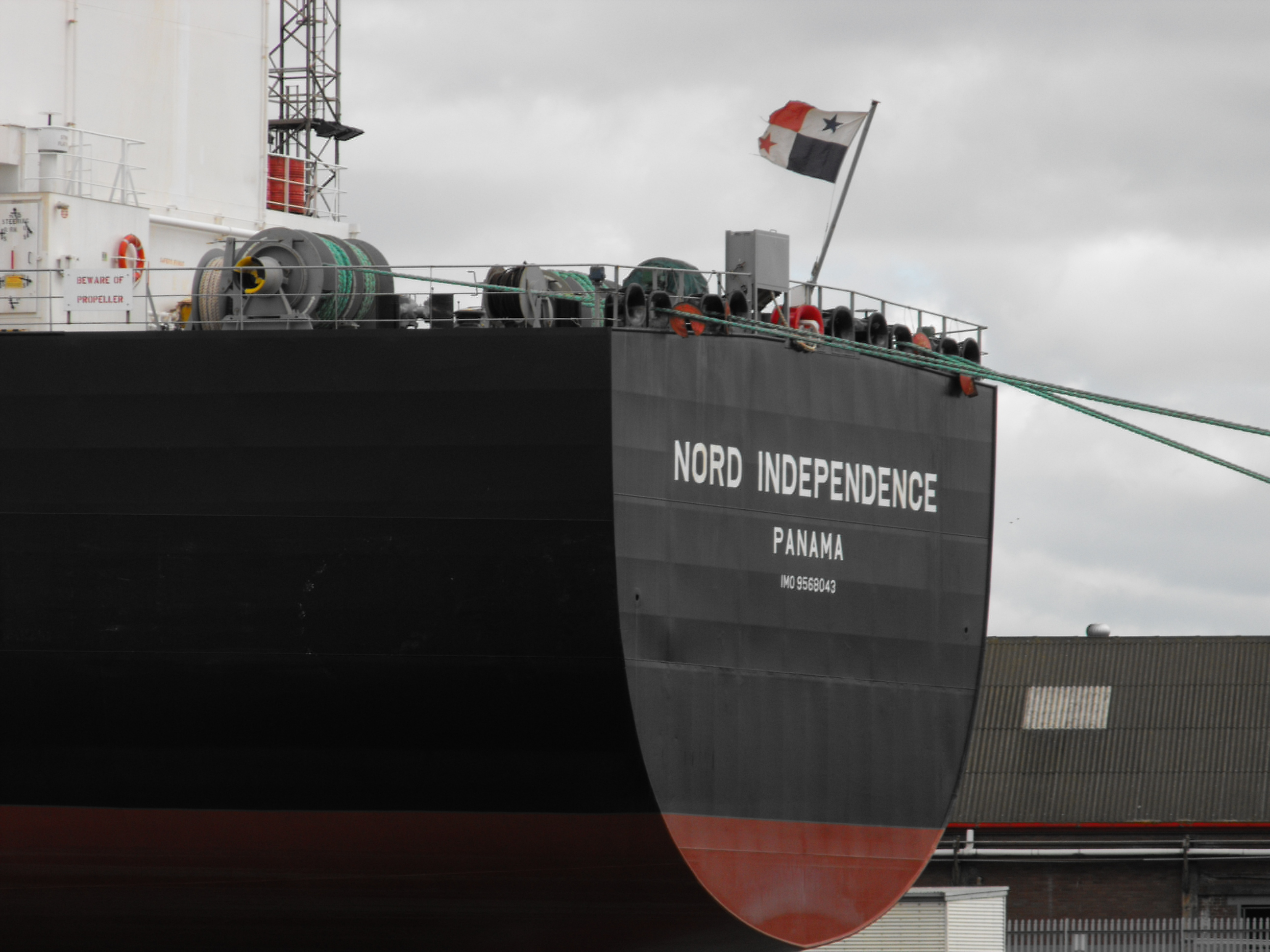 Stern of the container ship Nord Independence, showing the ship's port of registry and IMO number